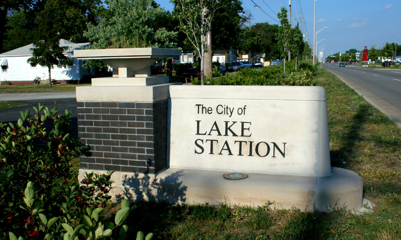 Welcome sign for the city of Lake Station